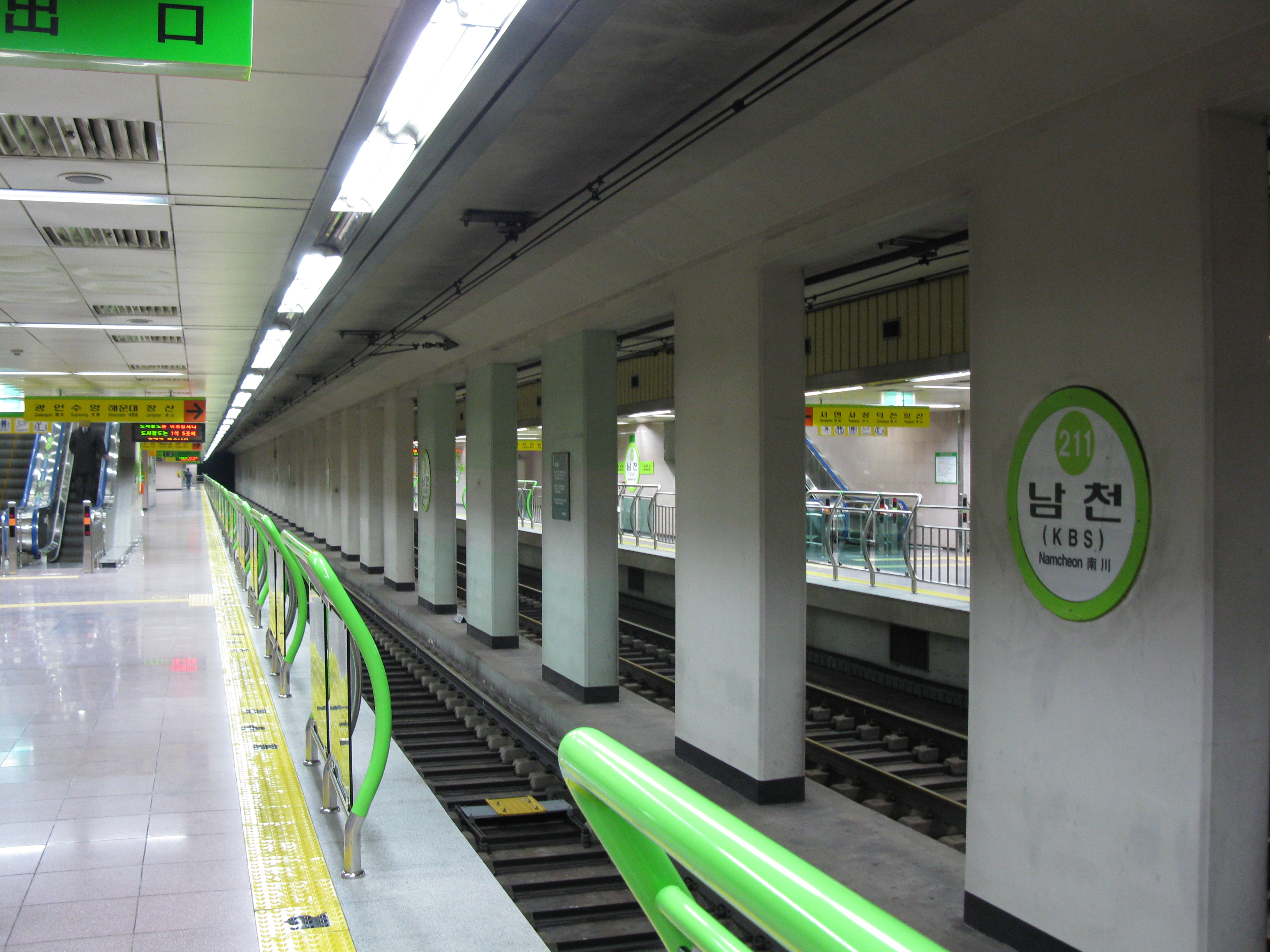 Namcheon Station platform (Busan Subway Line 2)